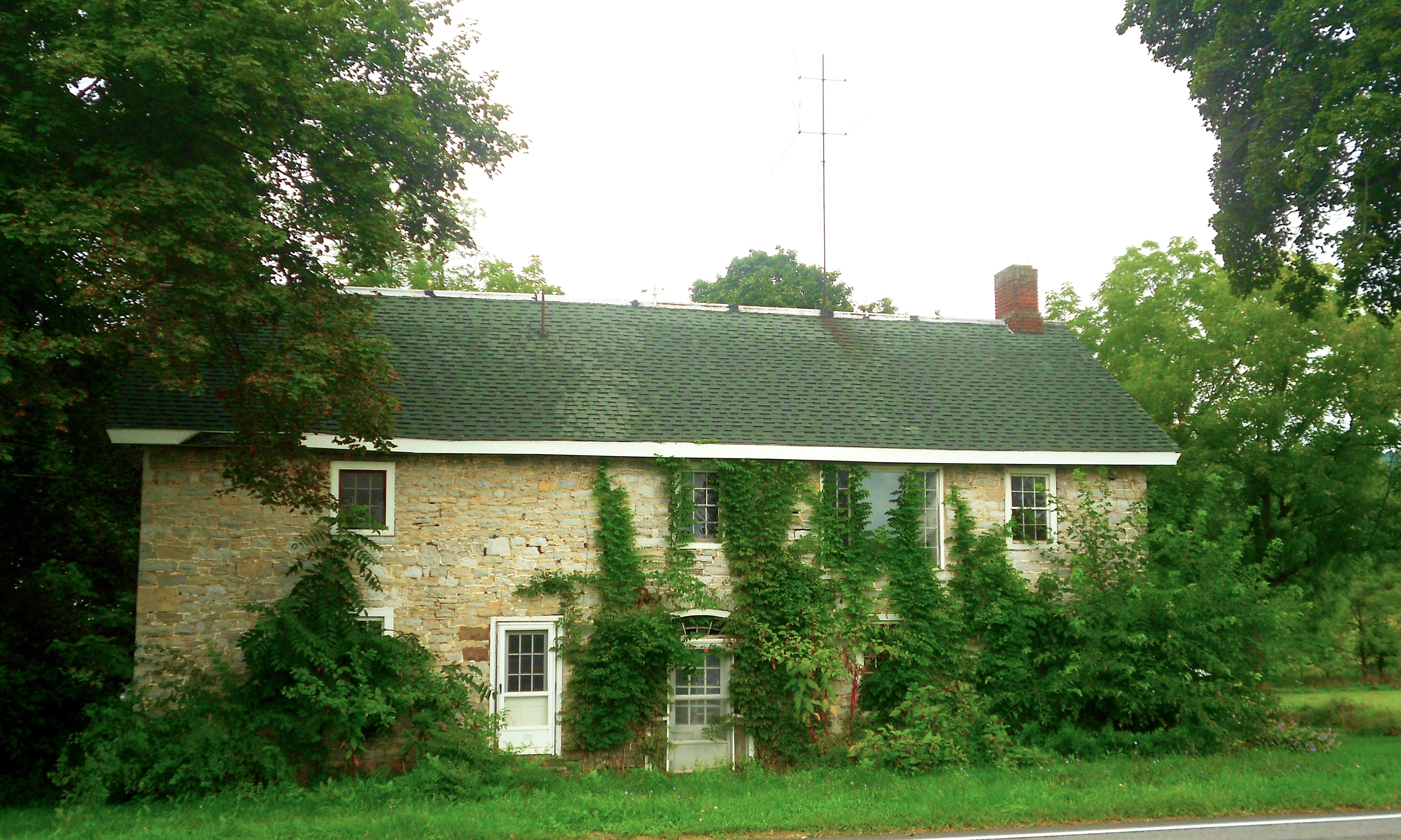 Abraham Elder Stone House listed on the NRHP on April 13, 1977 on Pennsylvania Route 550 at Stormstown, about 50 yard east of Brothers Pizza, Halfmoon Township, Centre County, Pennsylvania. Note that the builders name is Abraham Elder and the construction material was stone. The older part of the building is on the left